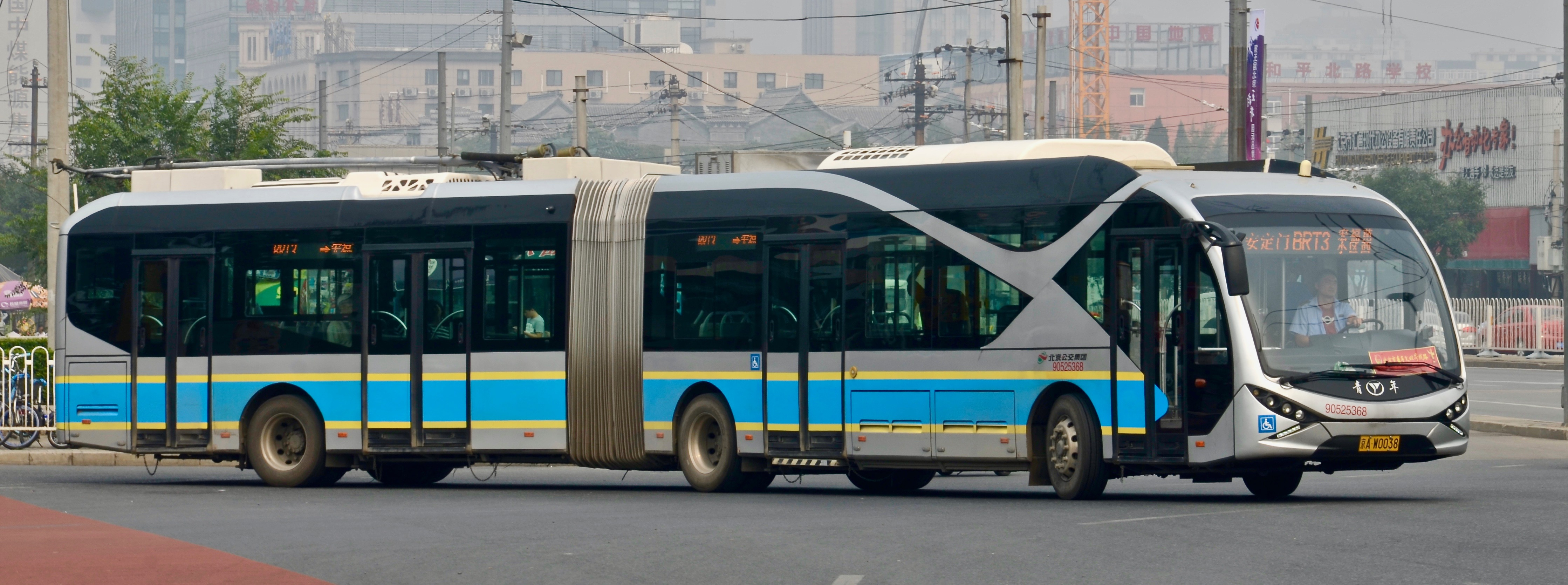 EBRT Line 3 Trolleybus,door are on the right side,as normal buses